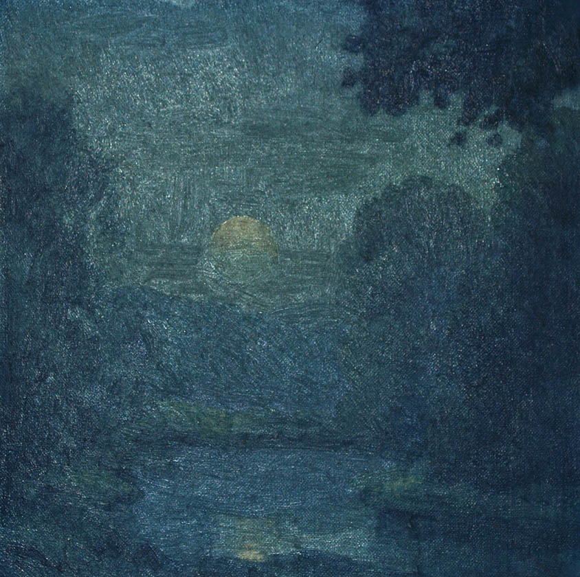 night scene painting from the Ozarks in Missouri.